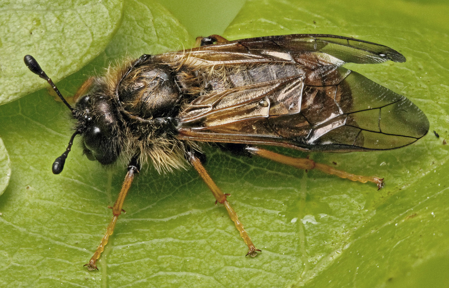 Trichiosoma lucorum agg, Trawscoed, North Wales, May 2014